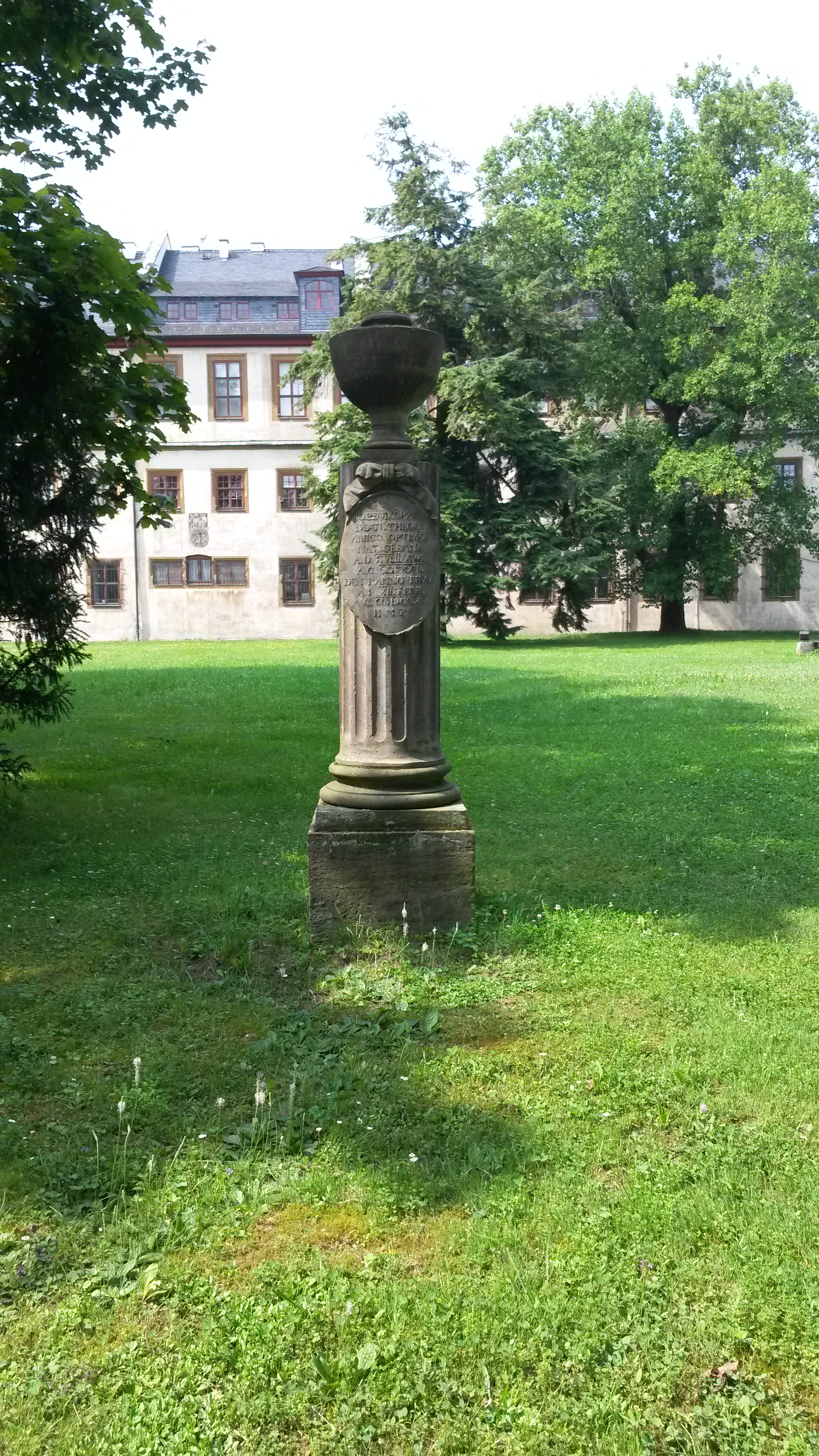 Memorial stone for Johann Benjamin Koppe nearby caste Friedenstein, Gotha, Thuringia, Germany